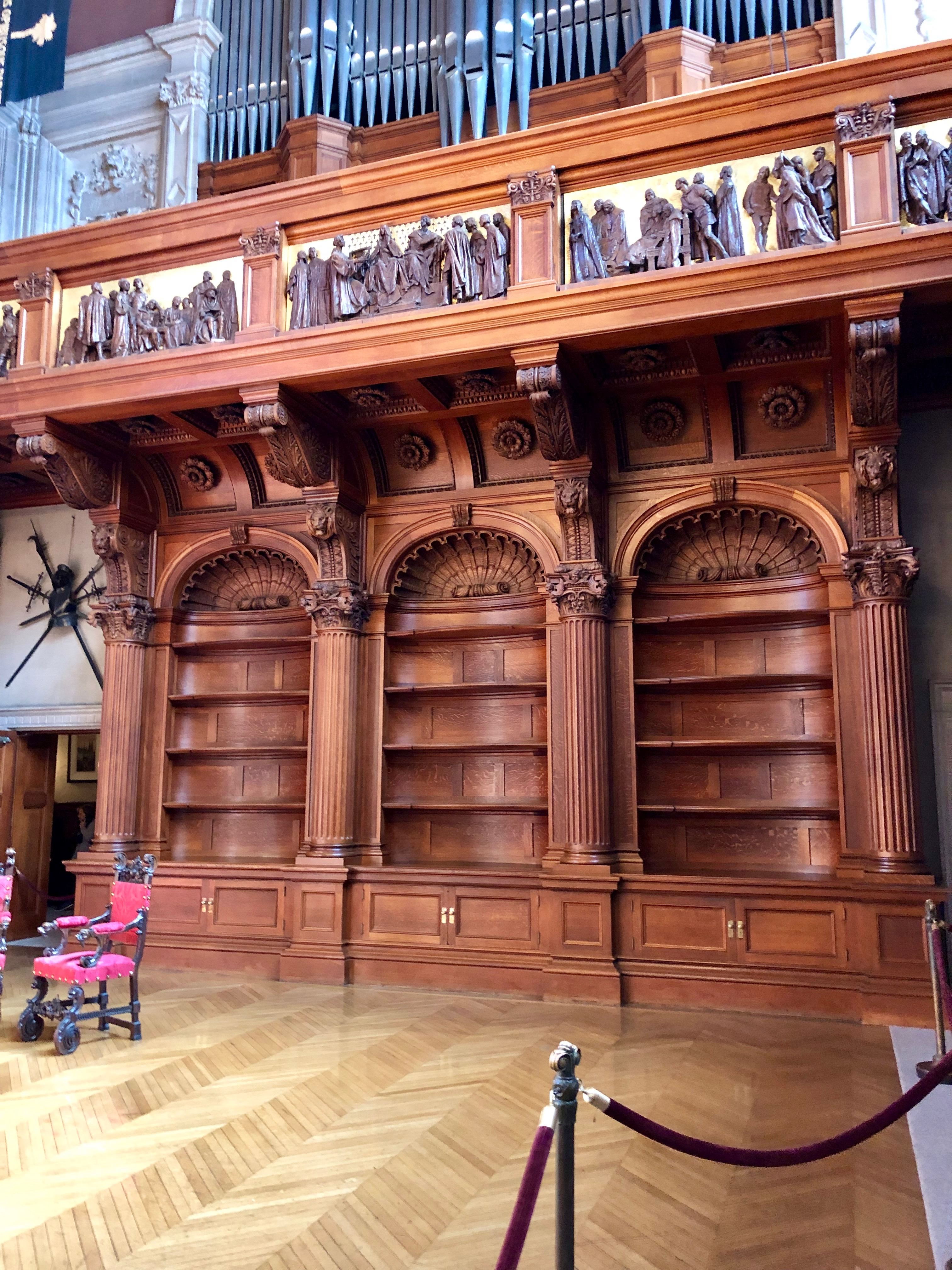 Banquet Hall, Biltmore House, Biltmore Estate, Asheville, NC